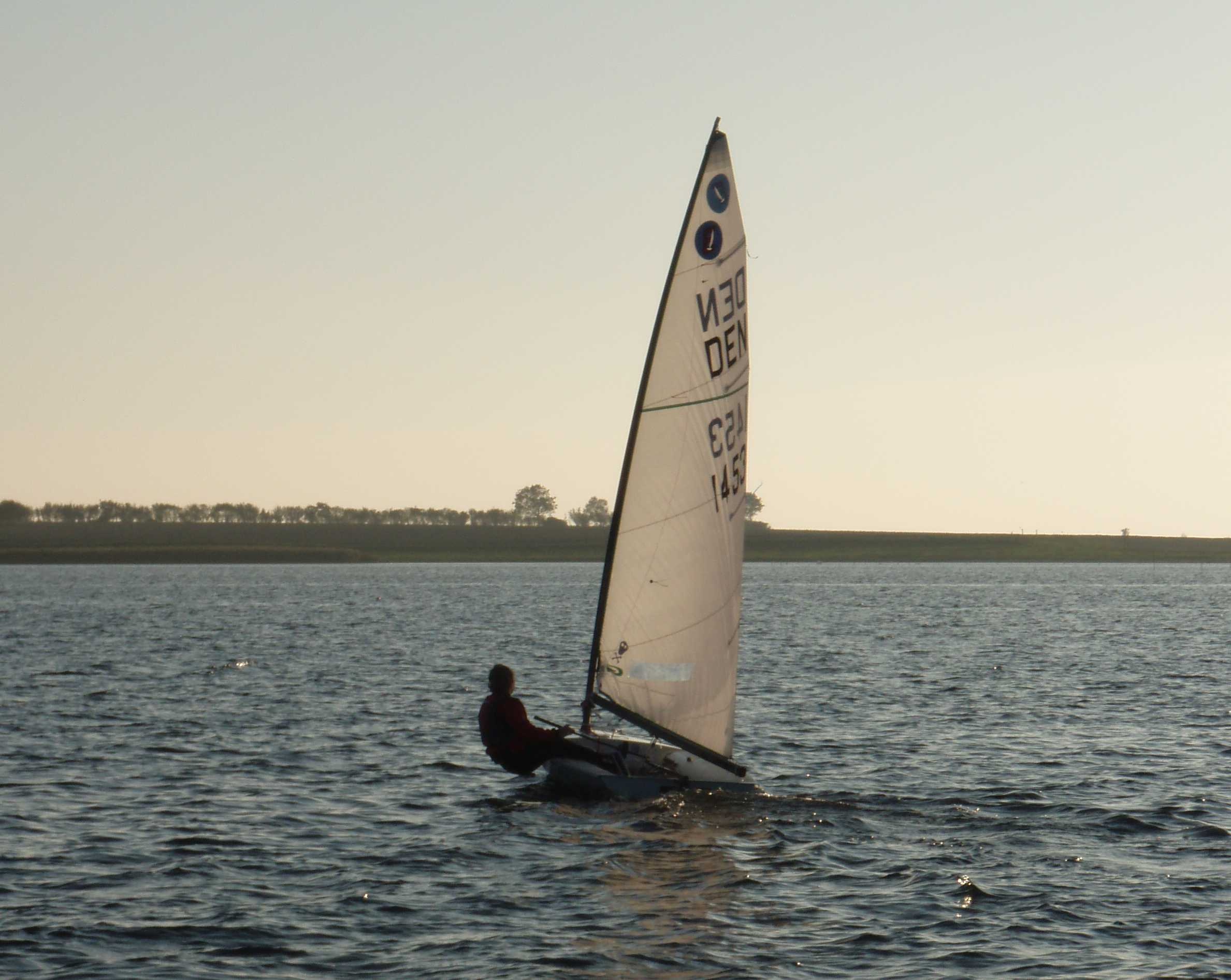 Europe dinghy, DEN 1453 Sailor: Liv Juhl Jacobsen Place: Ydernæs, Denmark